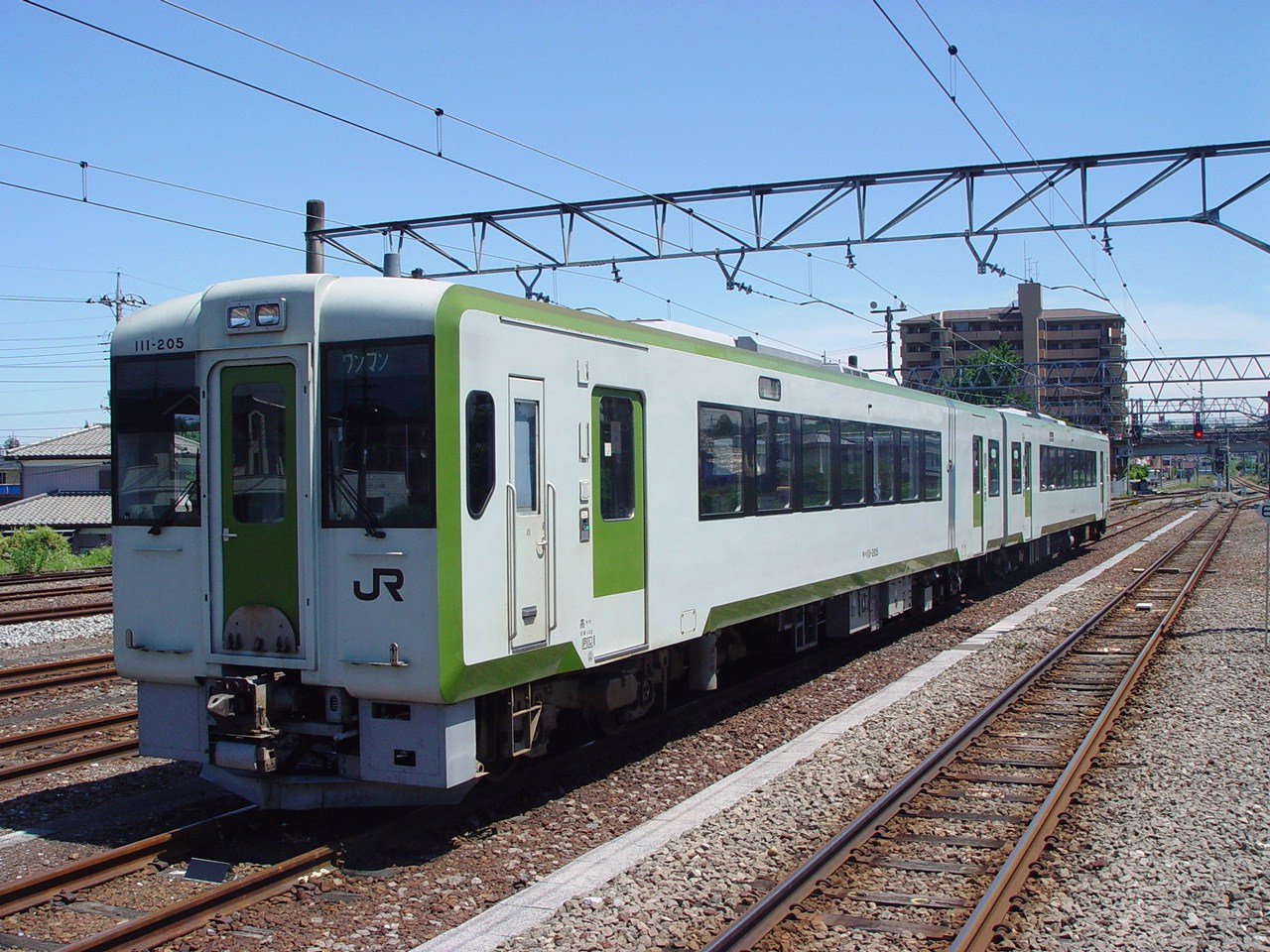 JR East KiHa 110 series 2-car DMU KiHa 111-205 + KiHa 112-205 stabled at Komagawa Station